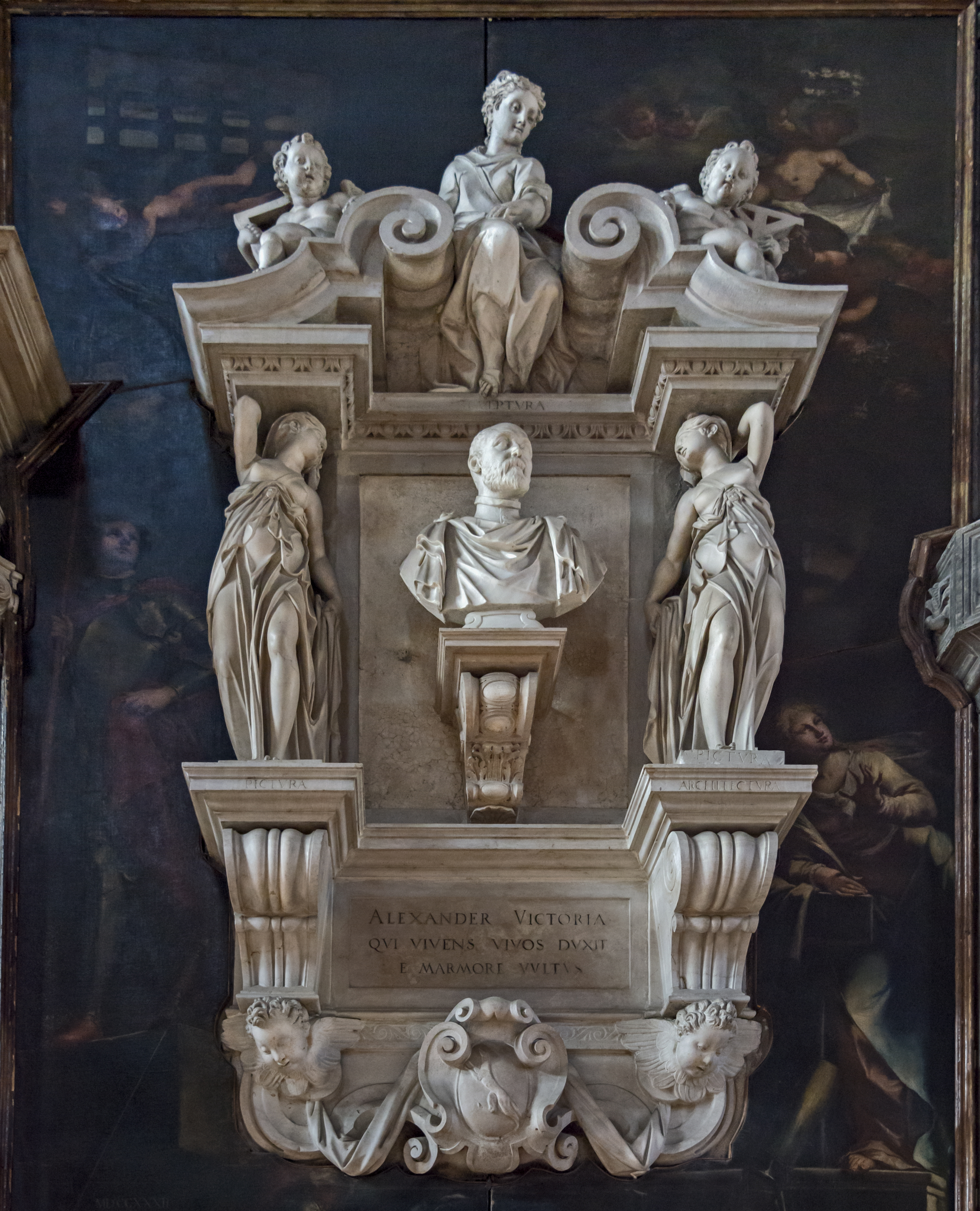 Church of San Zaccaria Venice. Alessandro Vittoria - funerary monument, Self-portrait marble bust.